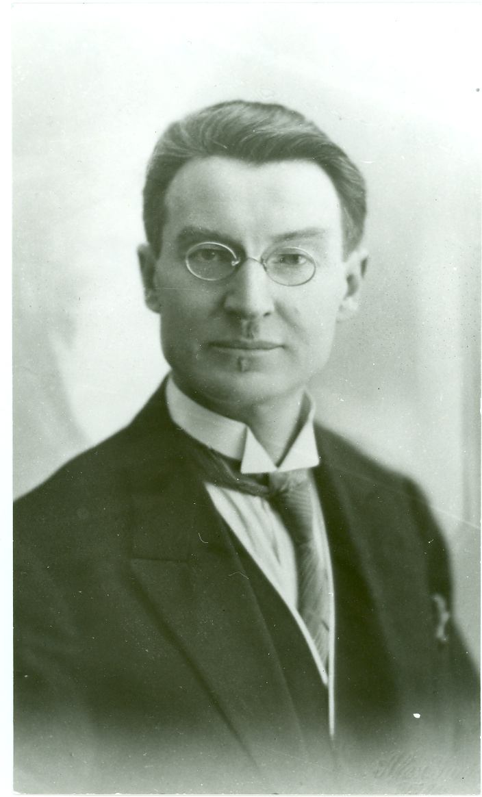 Estonian politician Ado Birk.